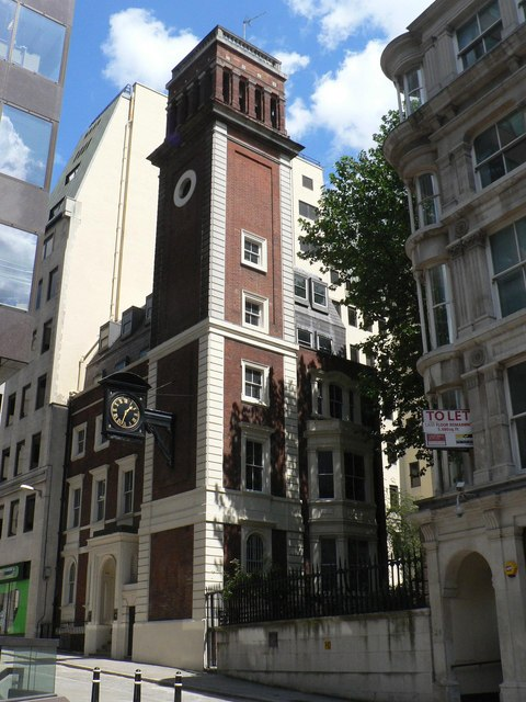 City parish churches: St. Martin Orgar (former) in Martin Lane. Damaged in the Great Fire and demolished in 1820. Only the tower was rebuilt, in 1851. Although the tower appears to be a part of the building alongside, the body of the church was actually this side of the tower, where a small garden now exists.